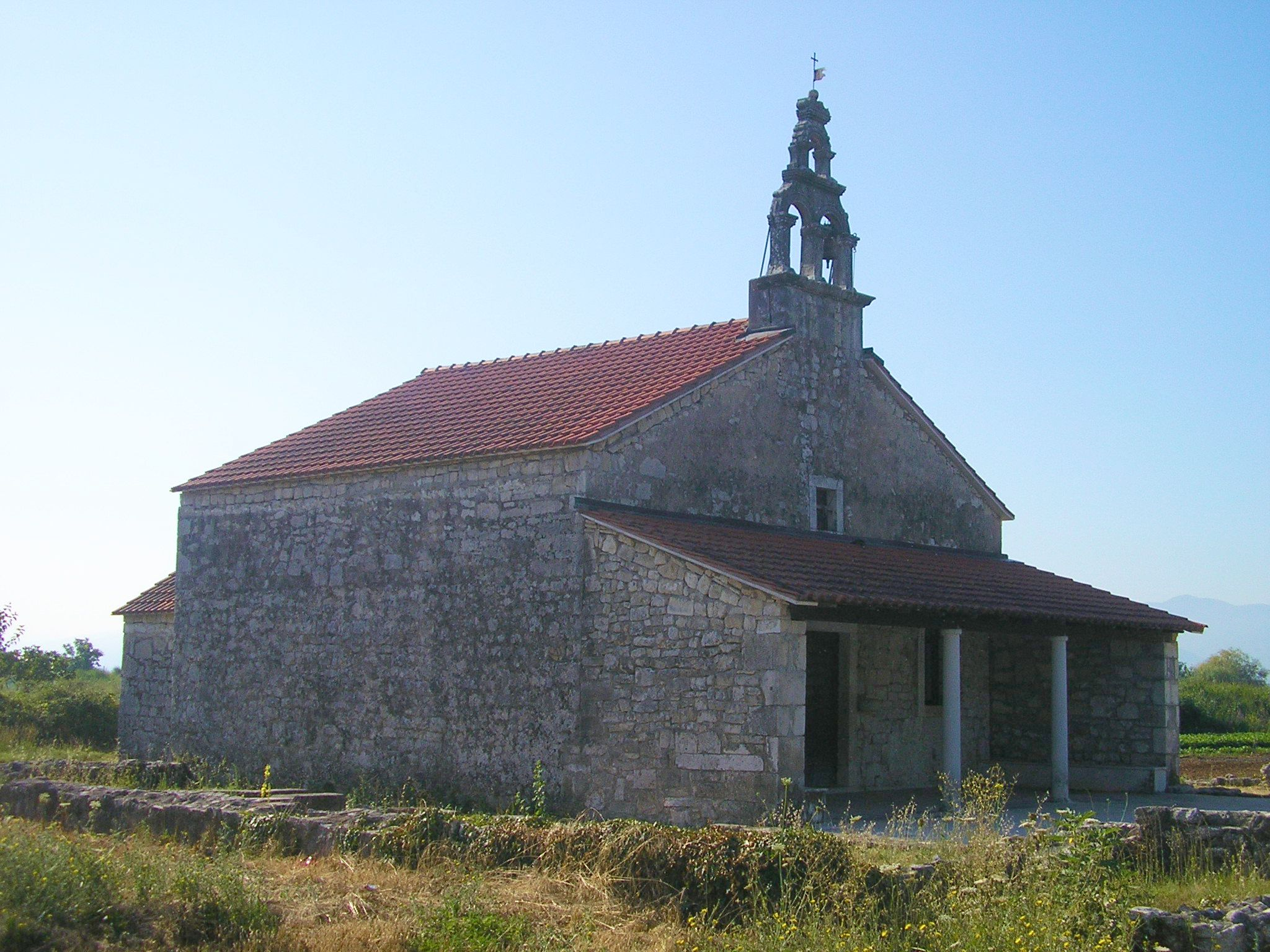 Church of Saint Vitus in Vid, Croatia